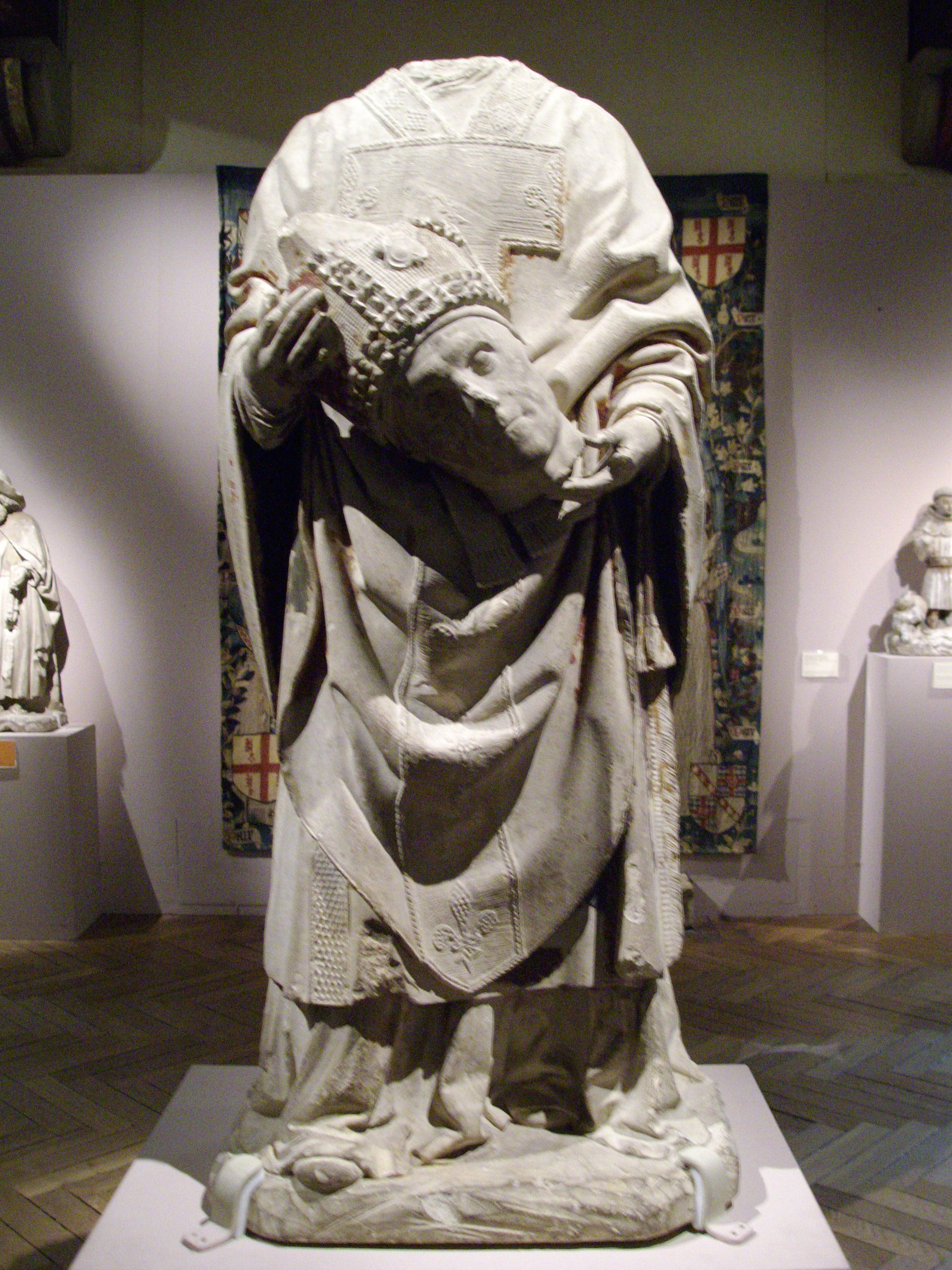 Saint Denis